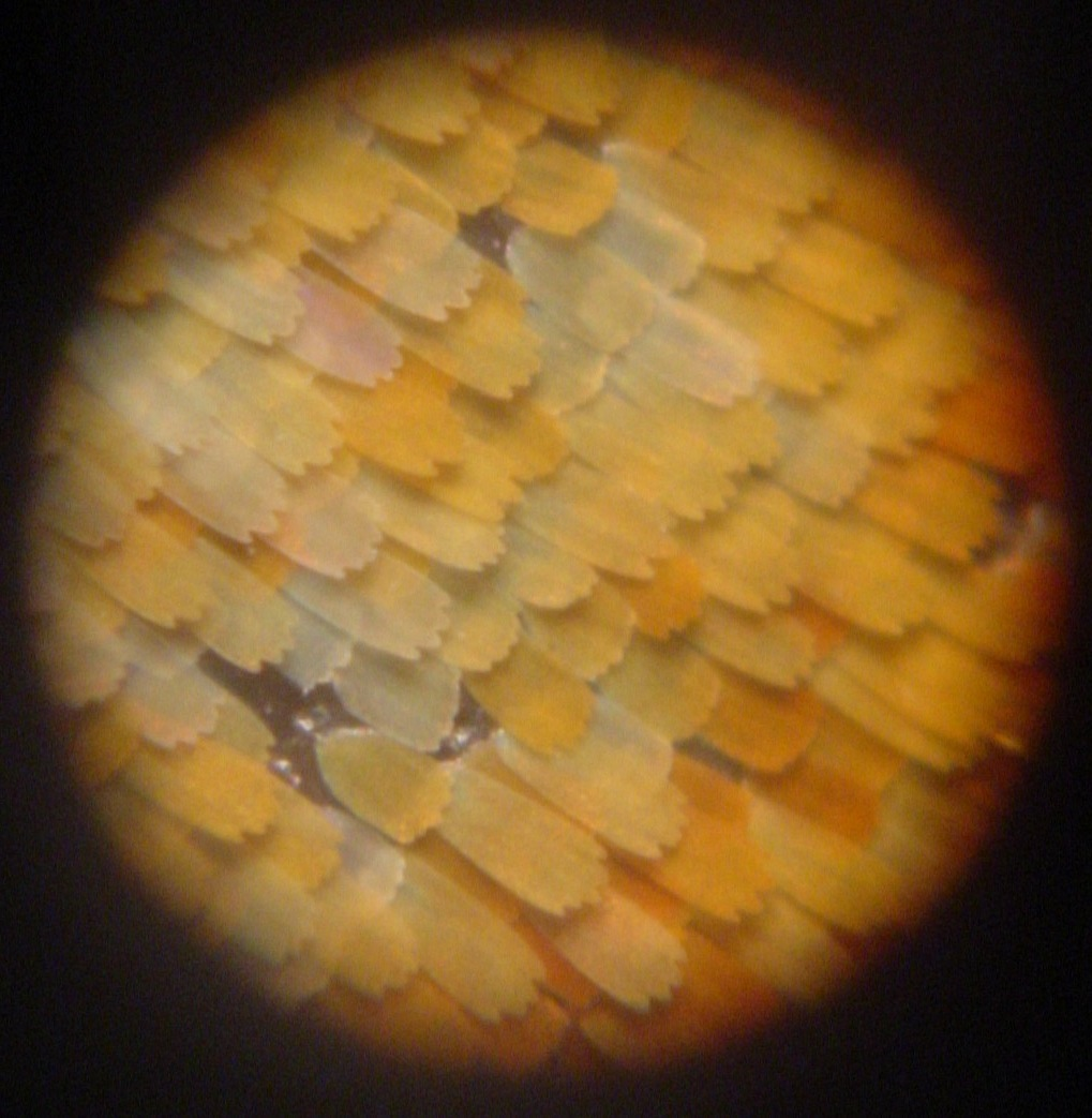 Description: Butterfly wing, yellow part, scales Author, date of creation: selfmade by Shaddack, 22 October 2005 Source: self-made Copyright: GFDL Comments: Microphotography from a homemade rig